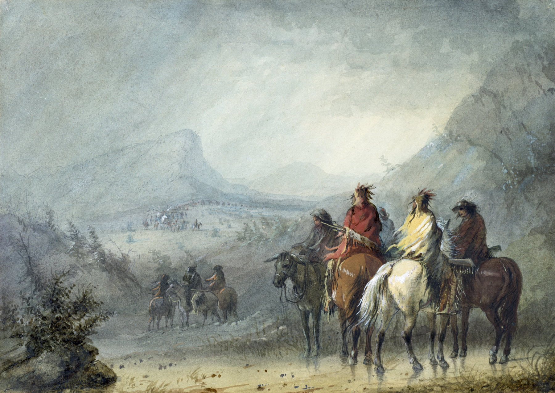 One of Miller's most beautifully painted and atmospheric pictures, "Storm" shows those who have gone ahead in a driving rainstorm and are waiting for the rest of the train to catch up. Miller said that after two or three days of rain he would become depressed, causing the captain to suggest that his "early training" had been "faulty."